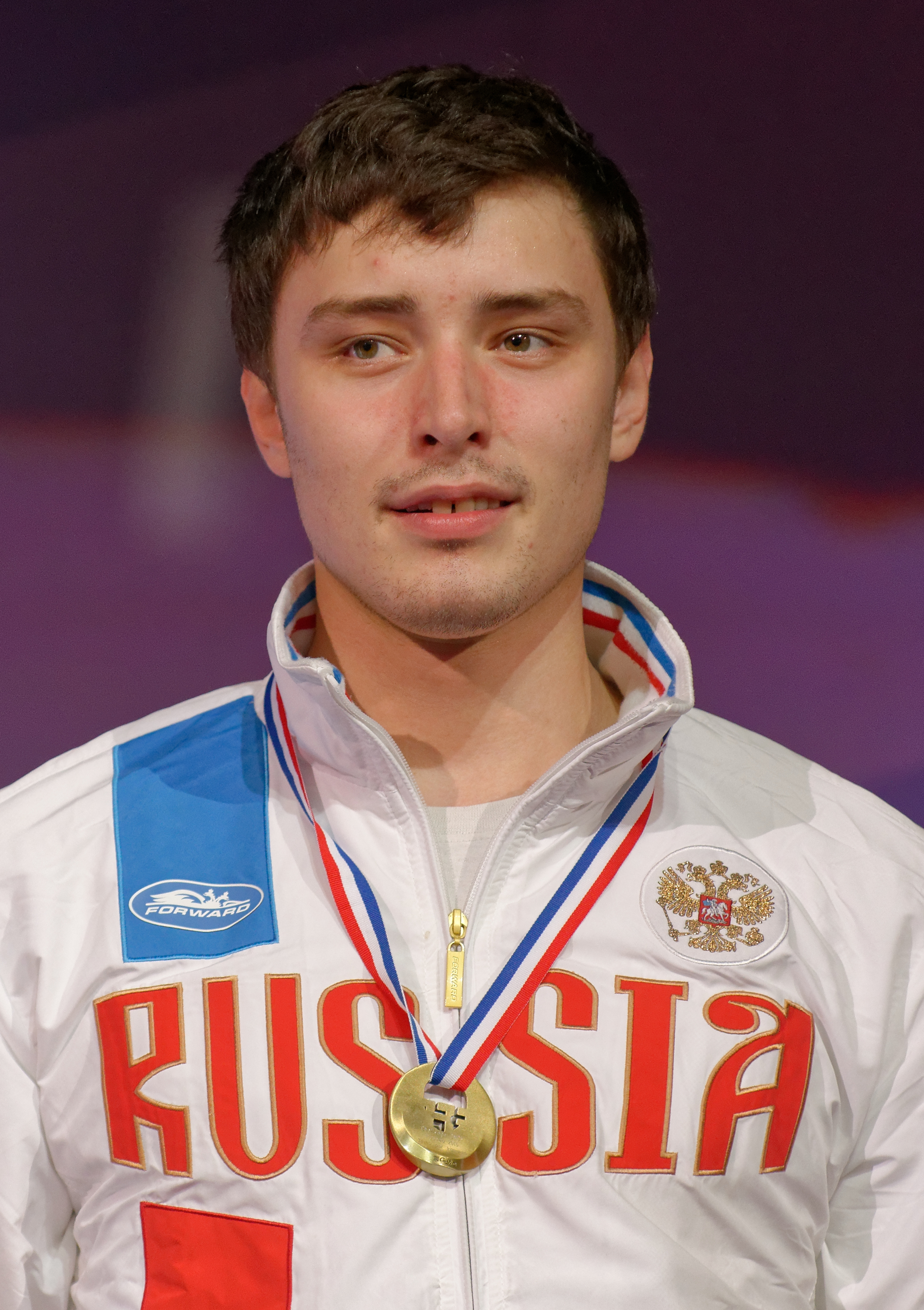 Russia's Vadim Anokhin at the Challenge SNCF Réseau-Trophée Monal 2015, a stage of the men's épée World Cup.